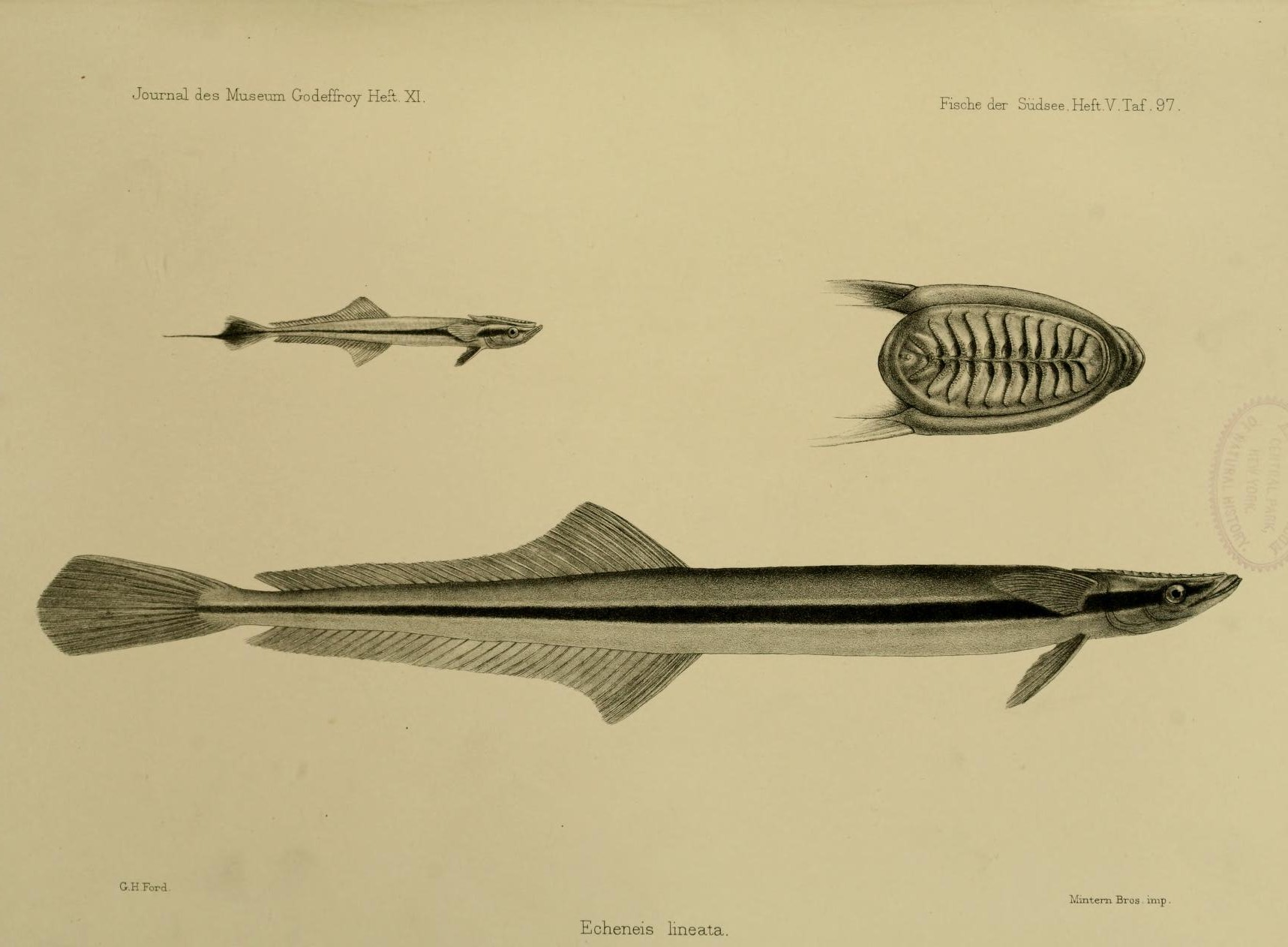 As file